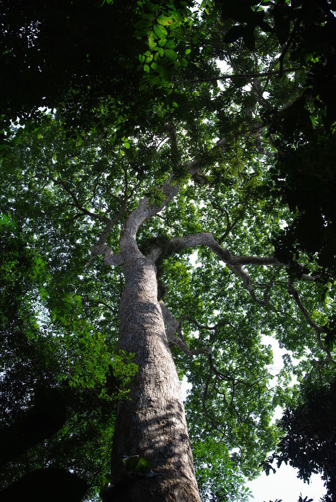 Amphimas pterocarpoides (Fabaceae) in the Dja Faunal Reserve. Photo: TLP Couvreur.